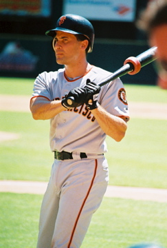 Omar Vizquel of the San Francisco Giants in the on deck circle.